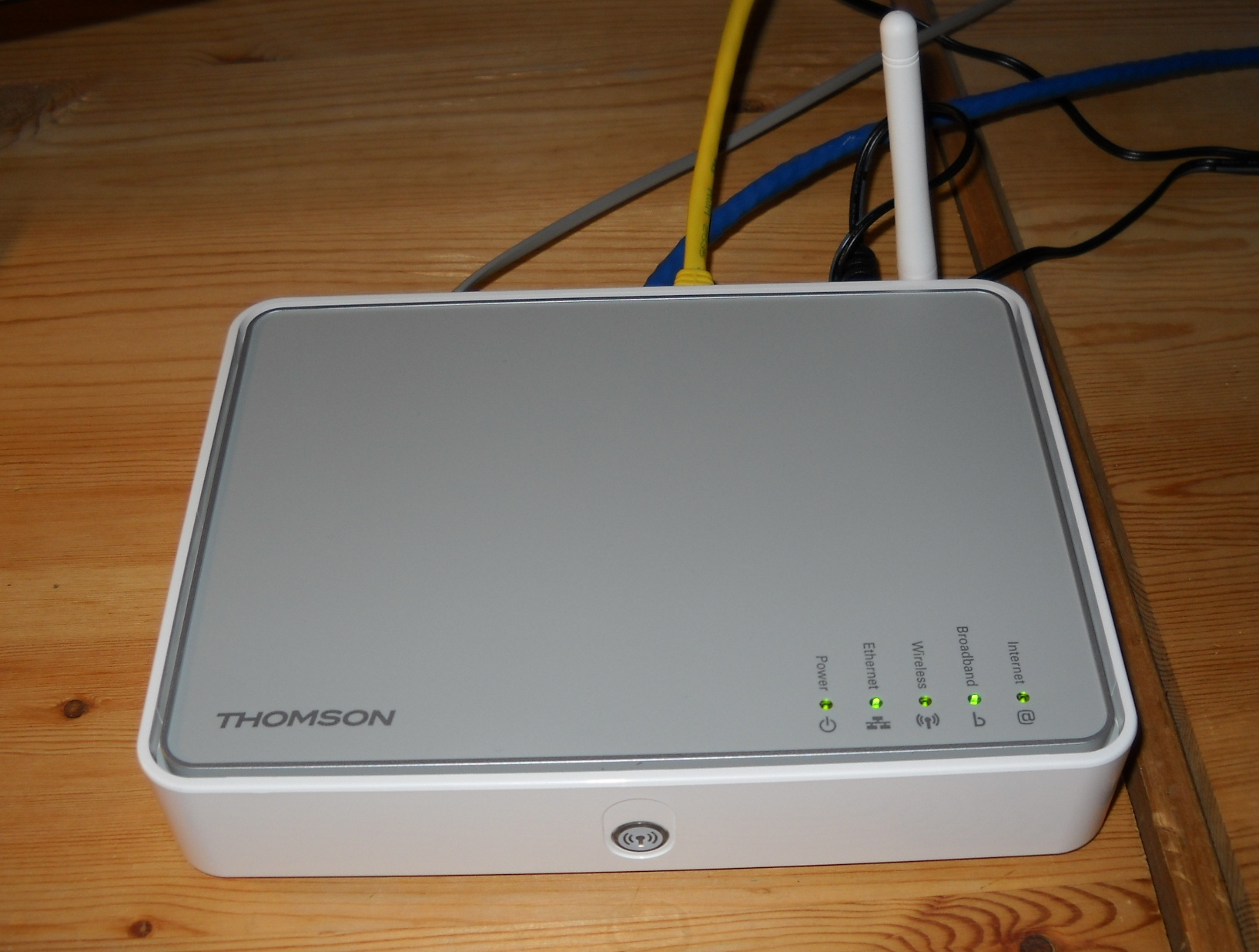 2011 model Thompson Speedtouch 585v8